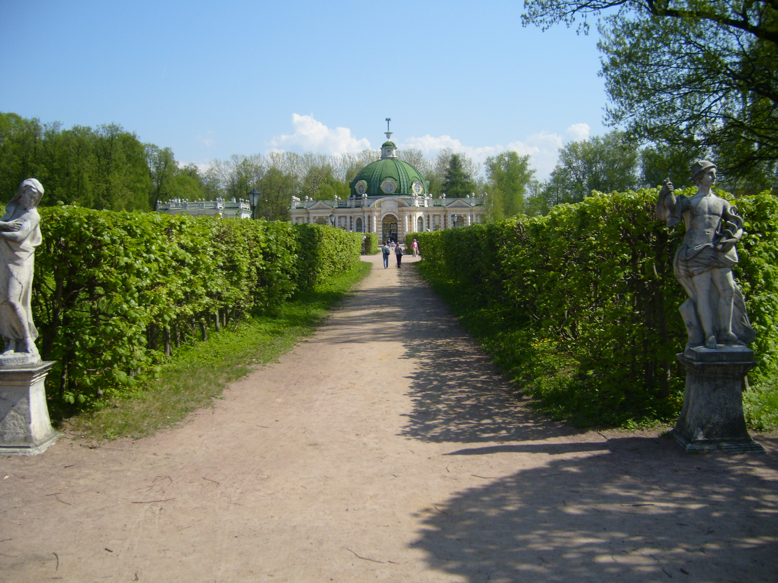 French garden and grotto at Kuskovo, Moscow